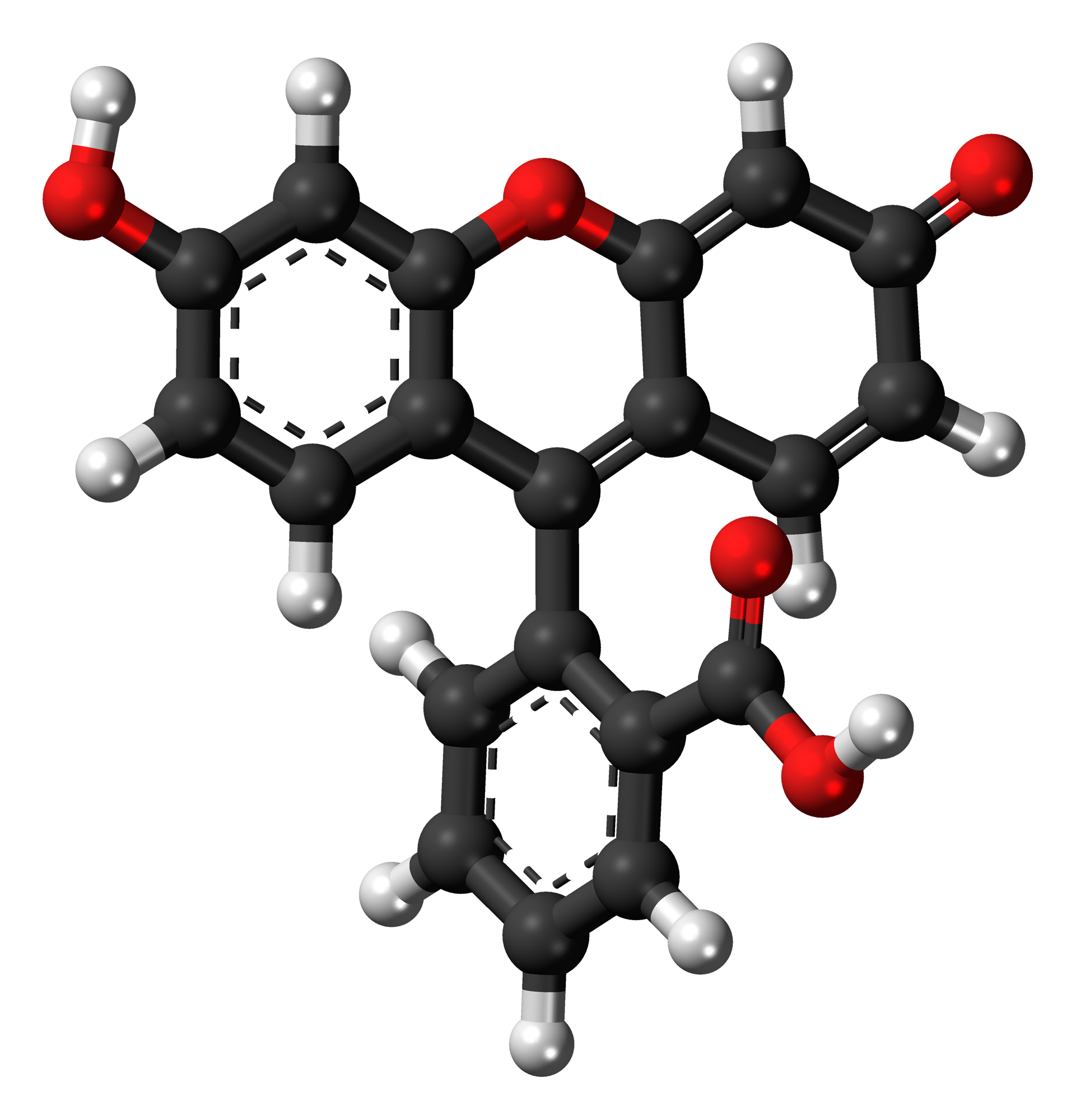 Ball-and-stick model of the fluorescein molecule, a red dye used as a fluorescent tracer. Colour code: Carbon, C: black Hydrogen, H: white Oxygen, O: red